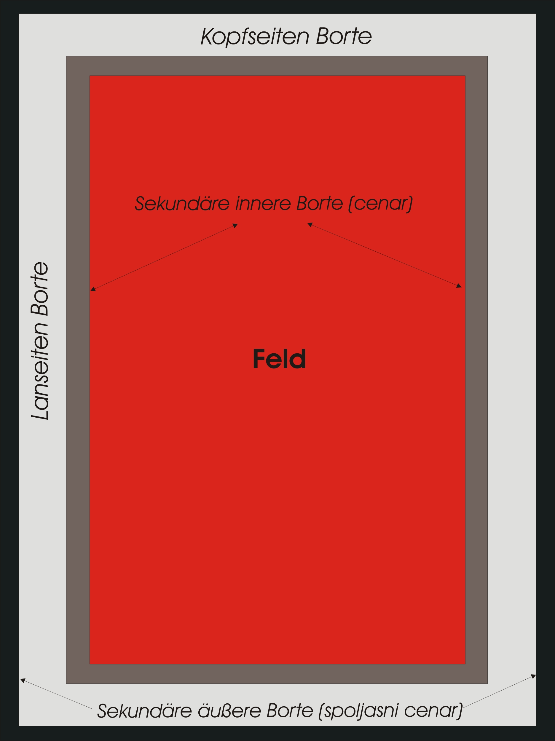 Komposition of Pirot kilim